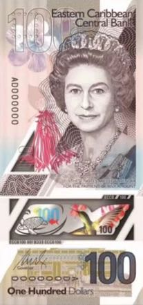 East caribbean states eccb 100 dollar